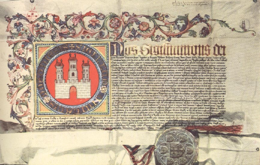 Coat of arms of Pozsony 1436